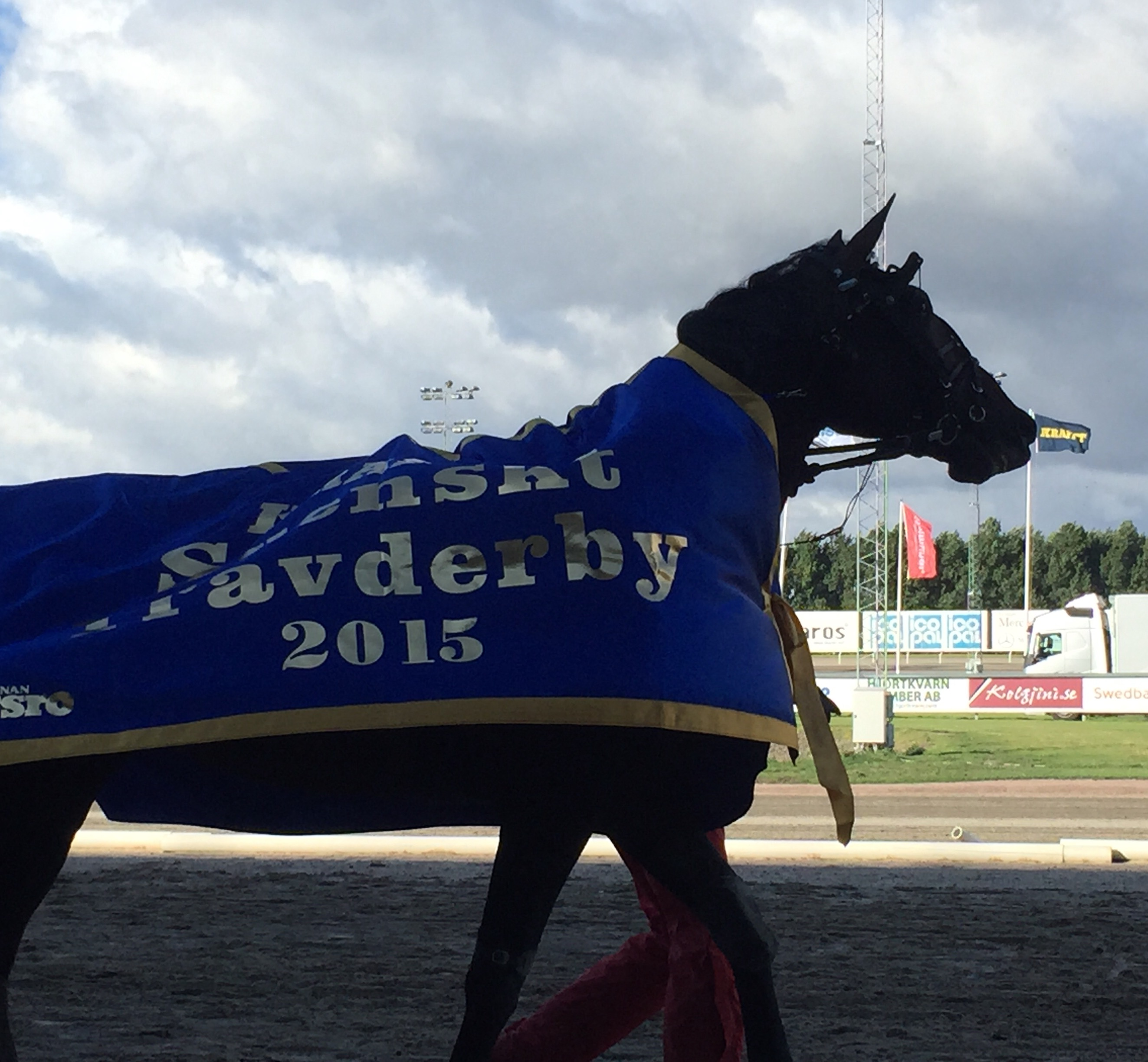 Conlight Ås after winning Swedish Trotting Derby 2015.